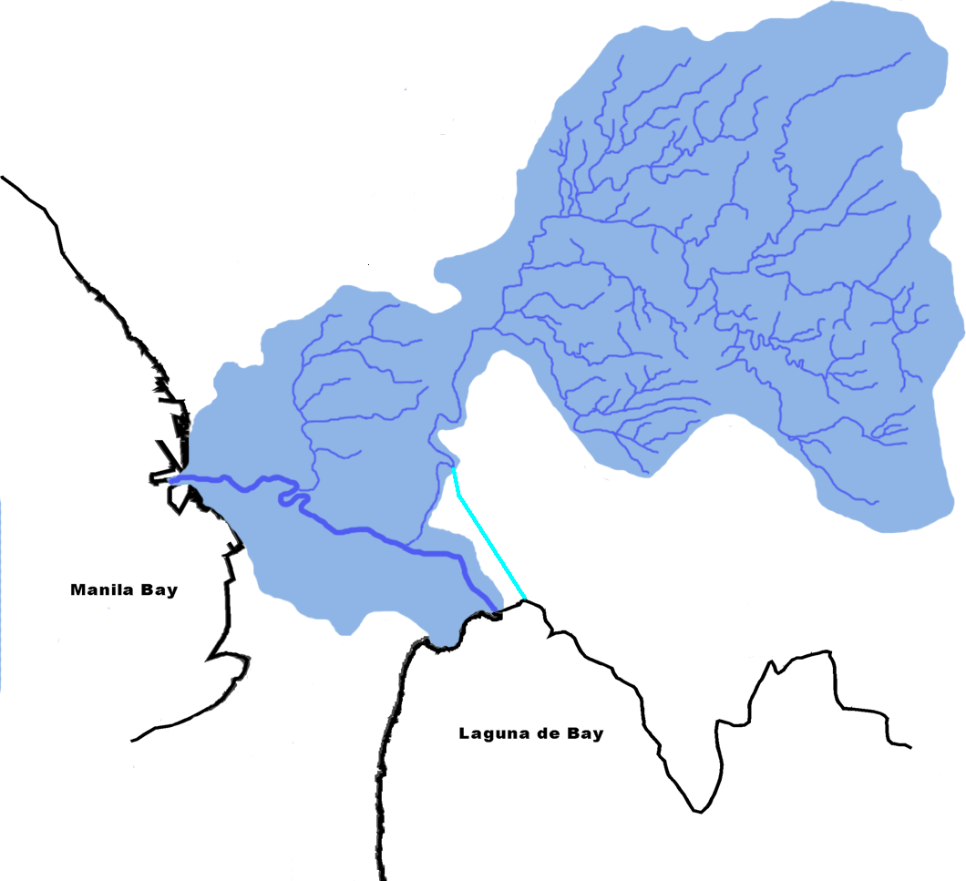 The drainage basin of the Pasig-Marikina River. Legend: Thick blue line: Pasig River Cyan line: Manggahan Floodway.